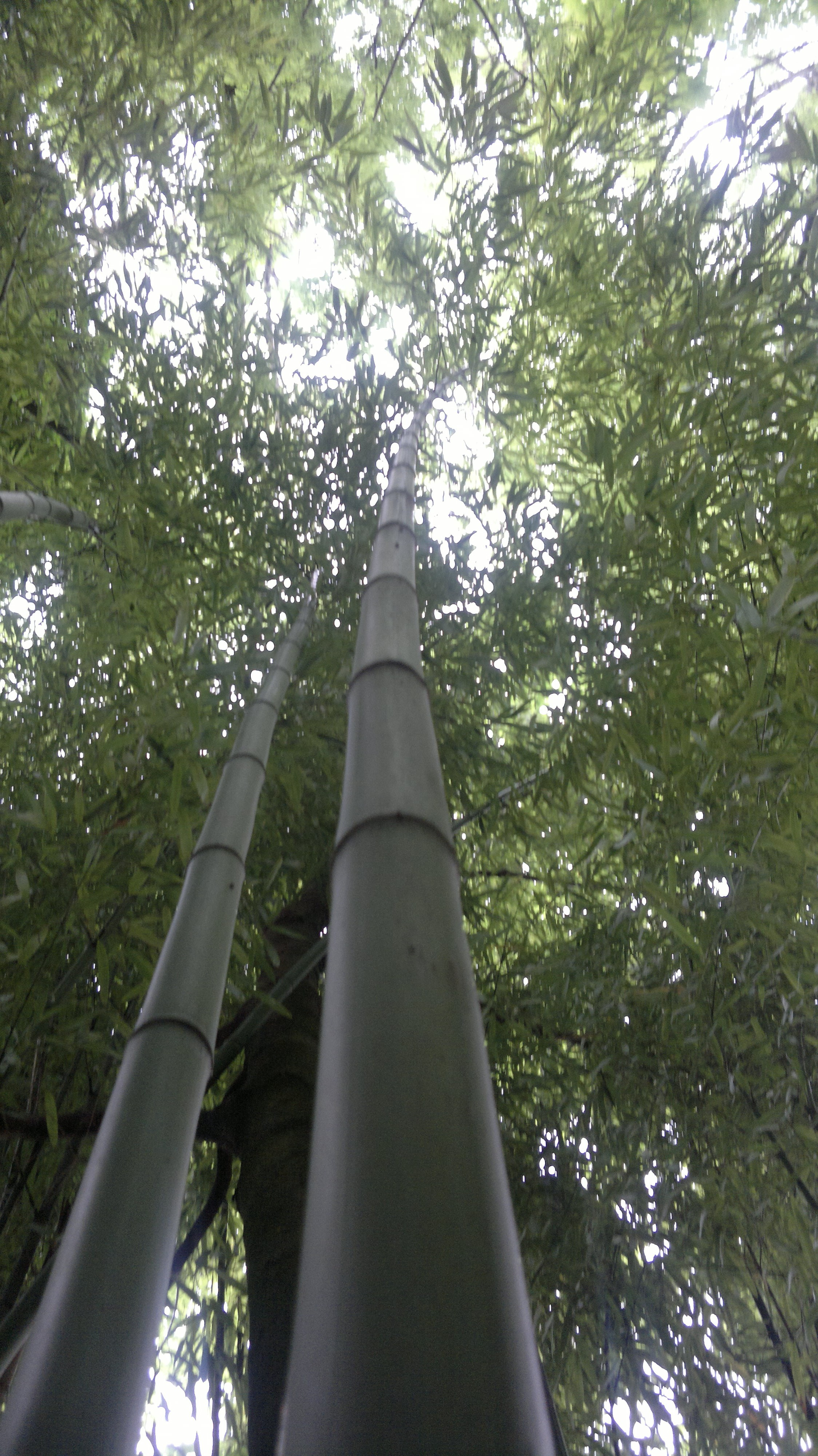 bamboo bambou bambuseae phyllostachys VAN_DEN_HENDE_ALAIN CC-BY-SA-4_0 _210520142095 bamboo stalk green foliage yellow stems garden ornamental plant green forest